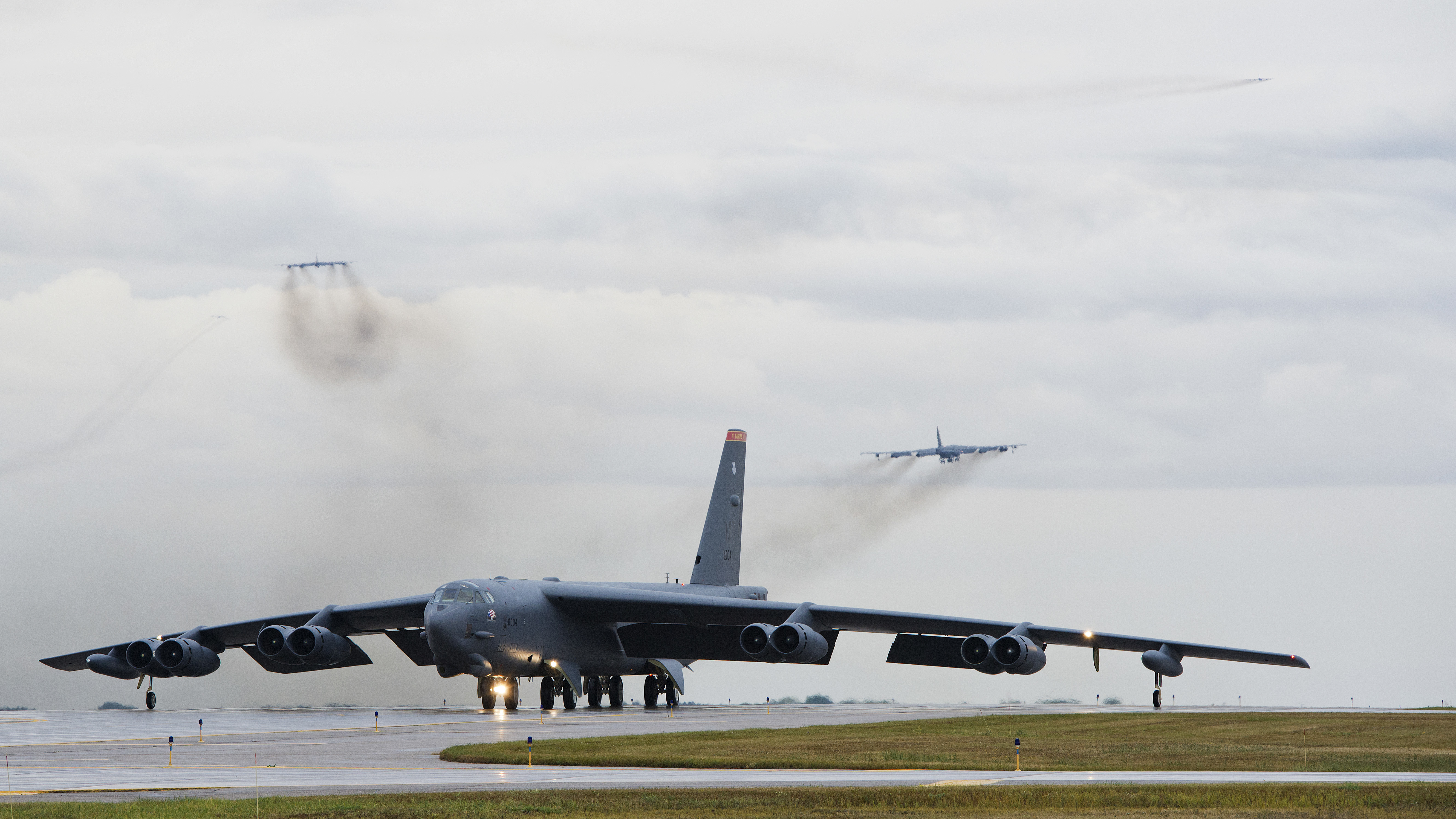 A B-52H Stratofortress taxis down the runway during Prairie Vigilance 16-1 at Minot Air Force Base, N.D., Sept. 16, 2016. As one leg of U.S. Strategic Command’s nuclear triad, Air Force Global Strike Command’s B-52s at Minot AFB, play an integral role in nation's strategic deterrence. (U.S. Air Force photo/Airman 1st Class J.T. Armstrong)